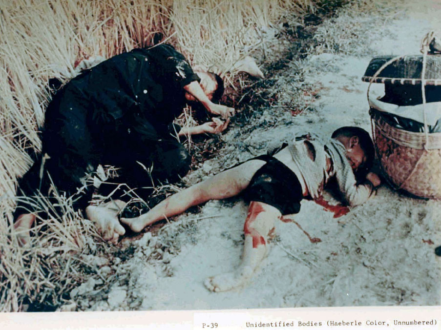 Unidentified bodies. My Lai, Vietnam. March 16, 1968.